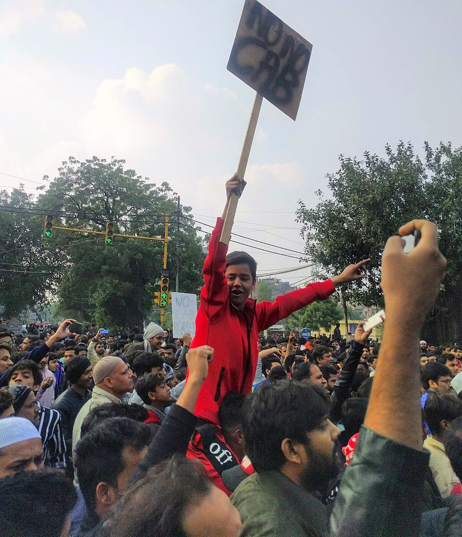 A child taking part in an anti-CAB NRC protest starting from Jamia Millia Islamia